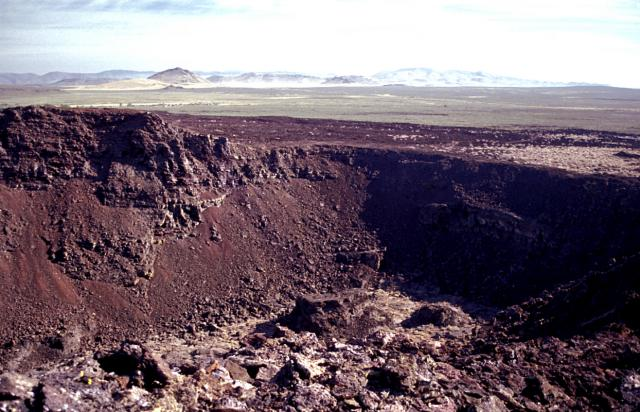 One of a series of interlocking craters forming the complex summit of Black Butte, the vent of the Shoshone lava field, is seen here from the summit of the butte. The broad, low Shoshone shield volcano fed voluminous lava flows that traveled a small distance north towards the Mount Bennett Hills in the background, but the bulk of the flows traveled initially south and then west for a total distance of 60 km. The Shoshone lava field, erupted about 10,000 years ago, is the westernmost of the young volcanic fields of the Snake River Plain.